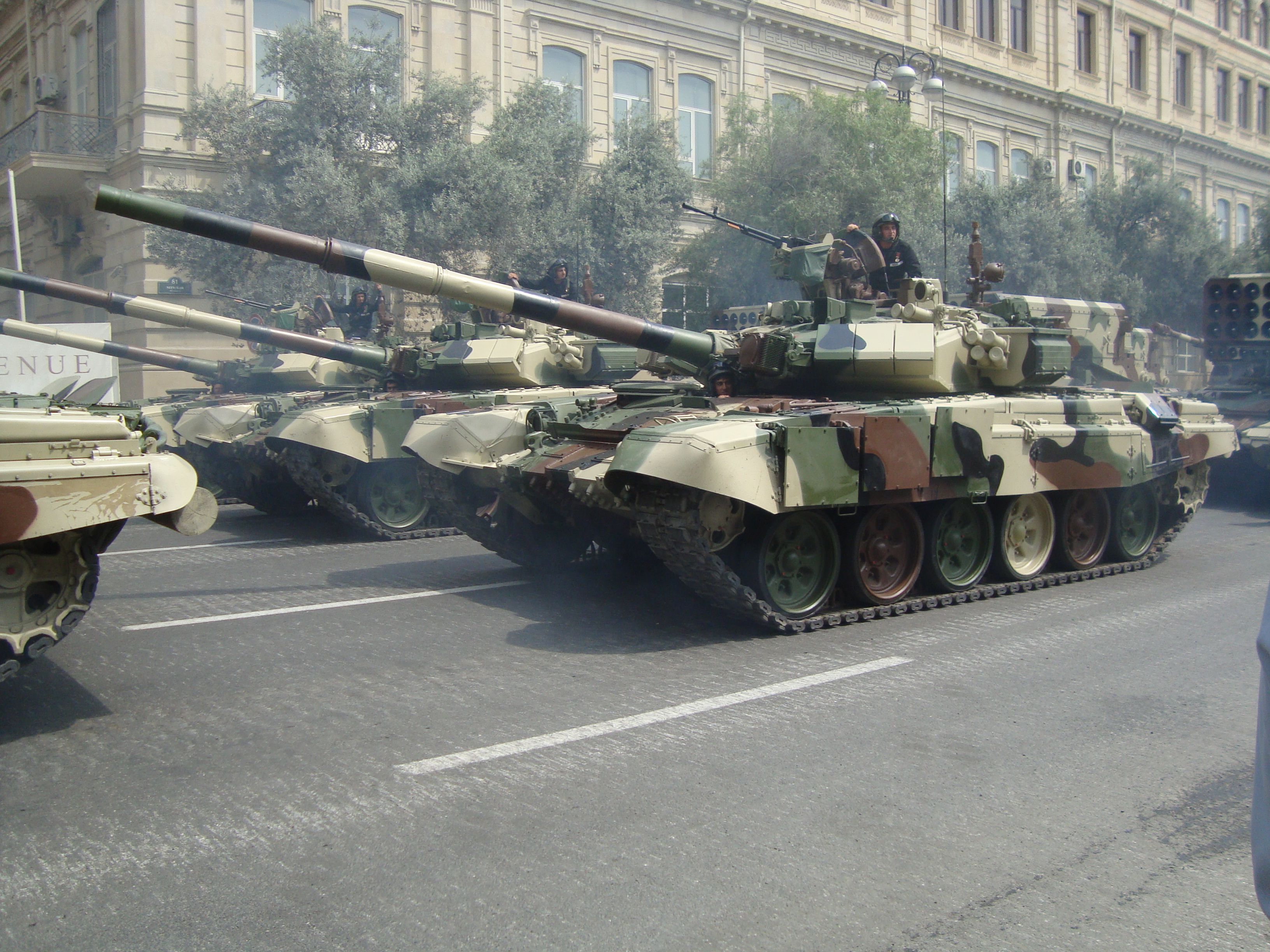 Azeri T-90